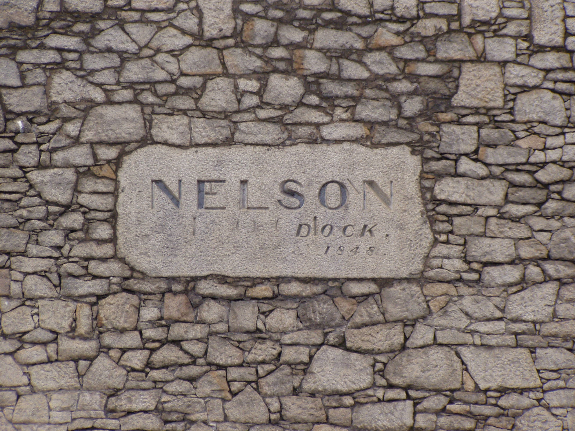 Nelson Dock Sign from Dock Road